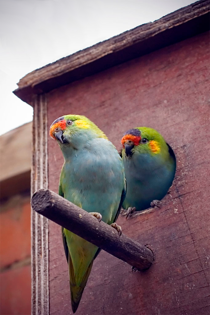 Purple-crowned Lorikeet, (Glossopsitta porphyrocephala). Photo taken at the Rainbow Jungle in Kalbarri, Western Australia.